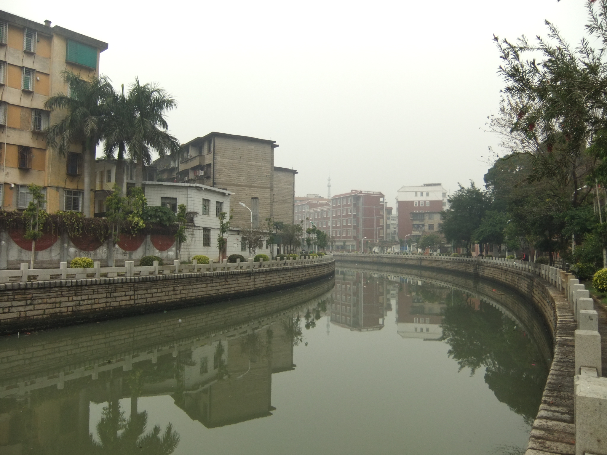 Sunwu Creek (Sunwu xi) near downtown Quanzhou, Fujian.